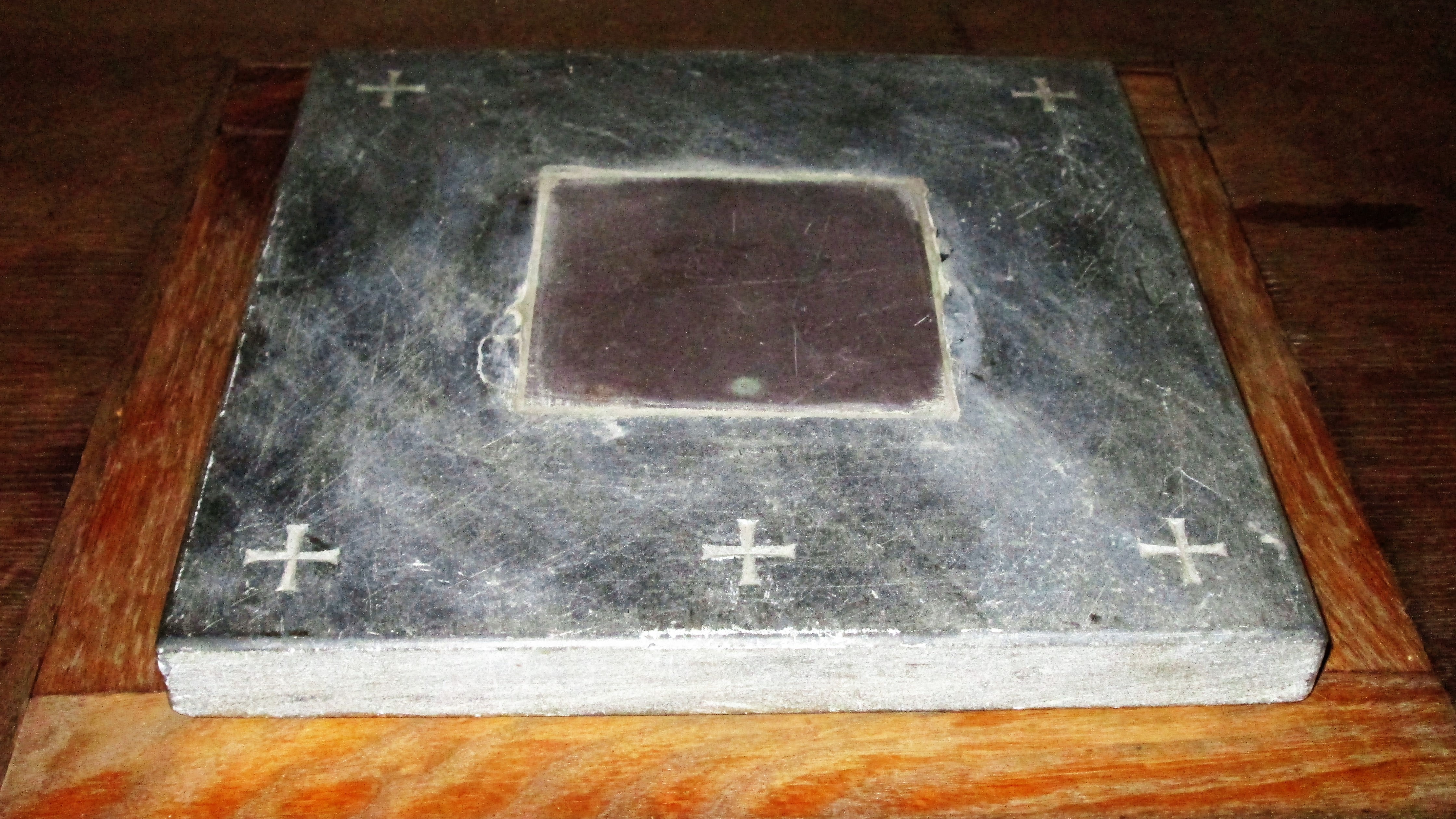 Altar stone (Berlin 2016)